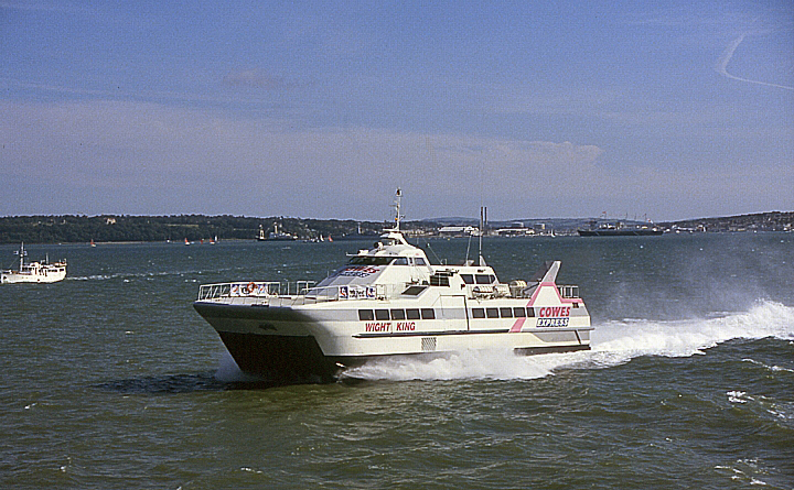 Wight King Cowes Express surface effect craft leaving Cowes. Scanned from a Fujichrome 35mm slide.